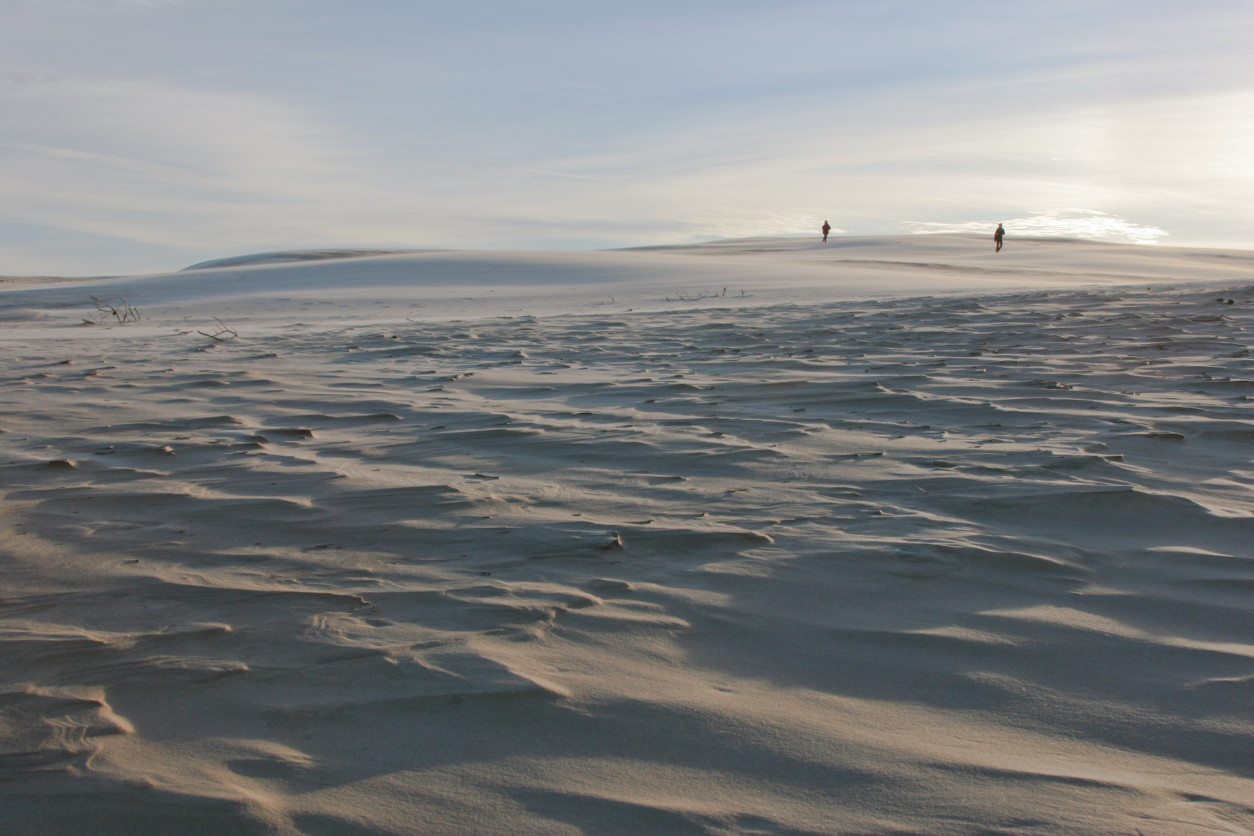 The Råbjerg Mile dune in northern Jutland, Denmark